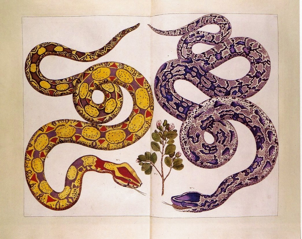 Snakes. Illustration from a famous 18th-century work of reference, edited by Albertus Seba, a Dutch pharmacist and collector of zoological and other natural subjects.